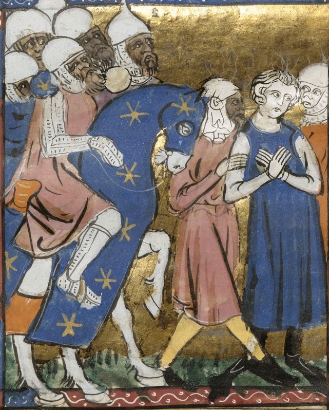 Baudouin II prisonnier